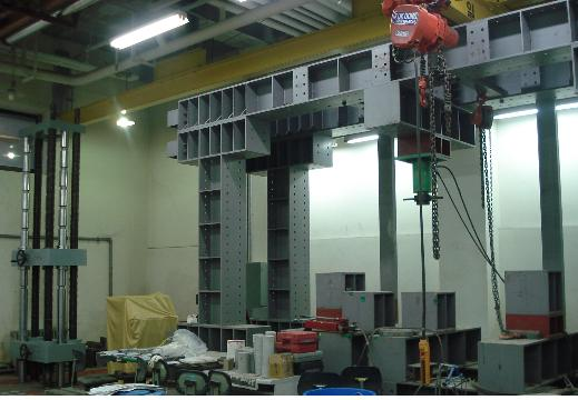 a picture for architectural engineering